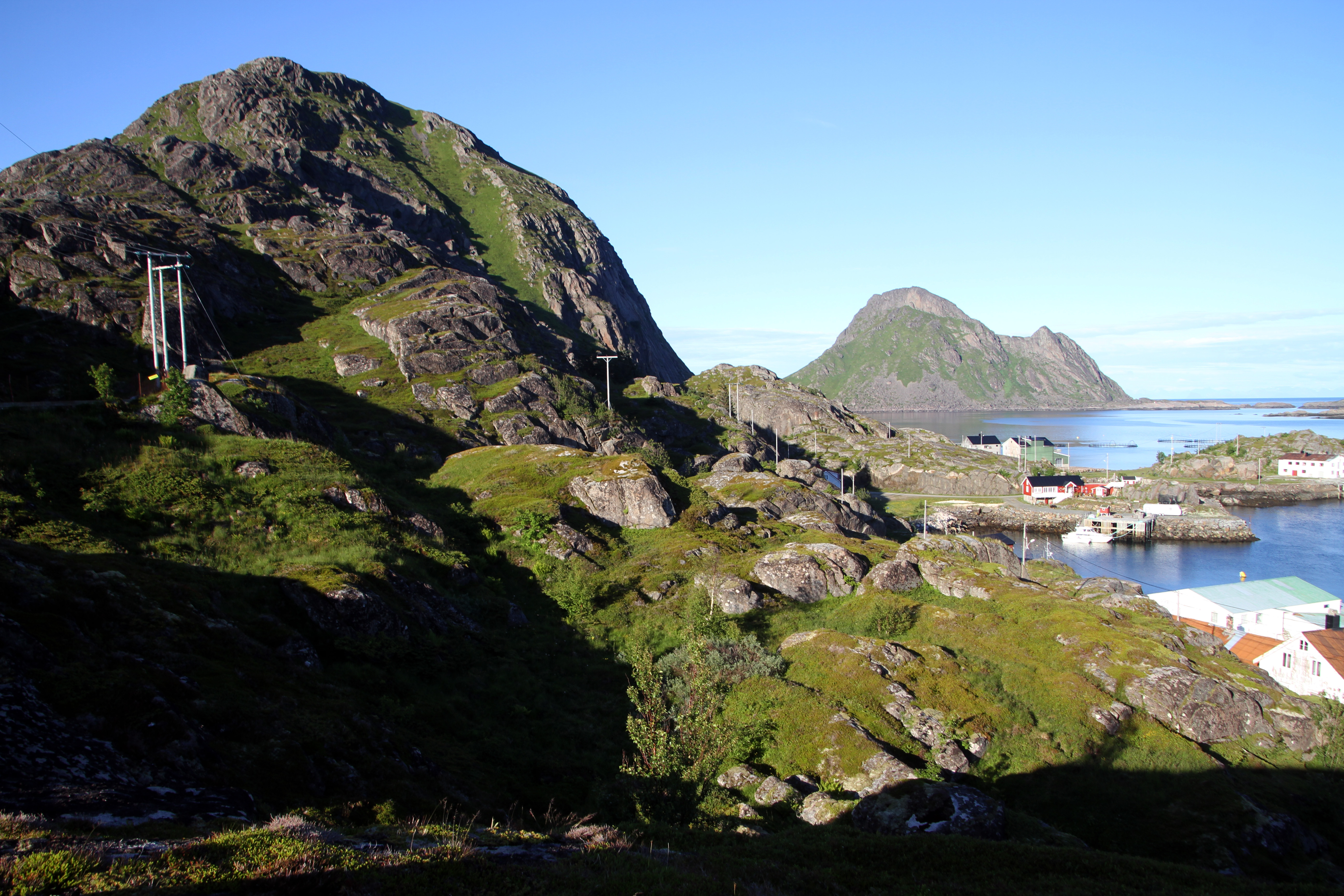 Settlement Mortsund, Vestvågøy, Lofoten, Norwegen